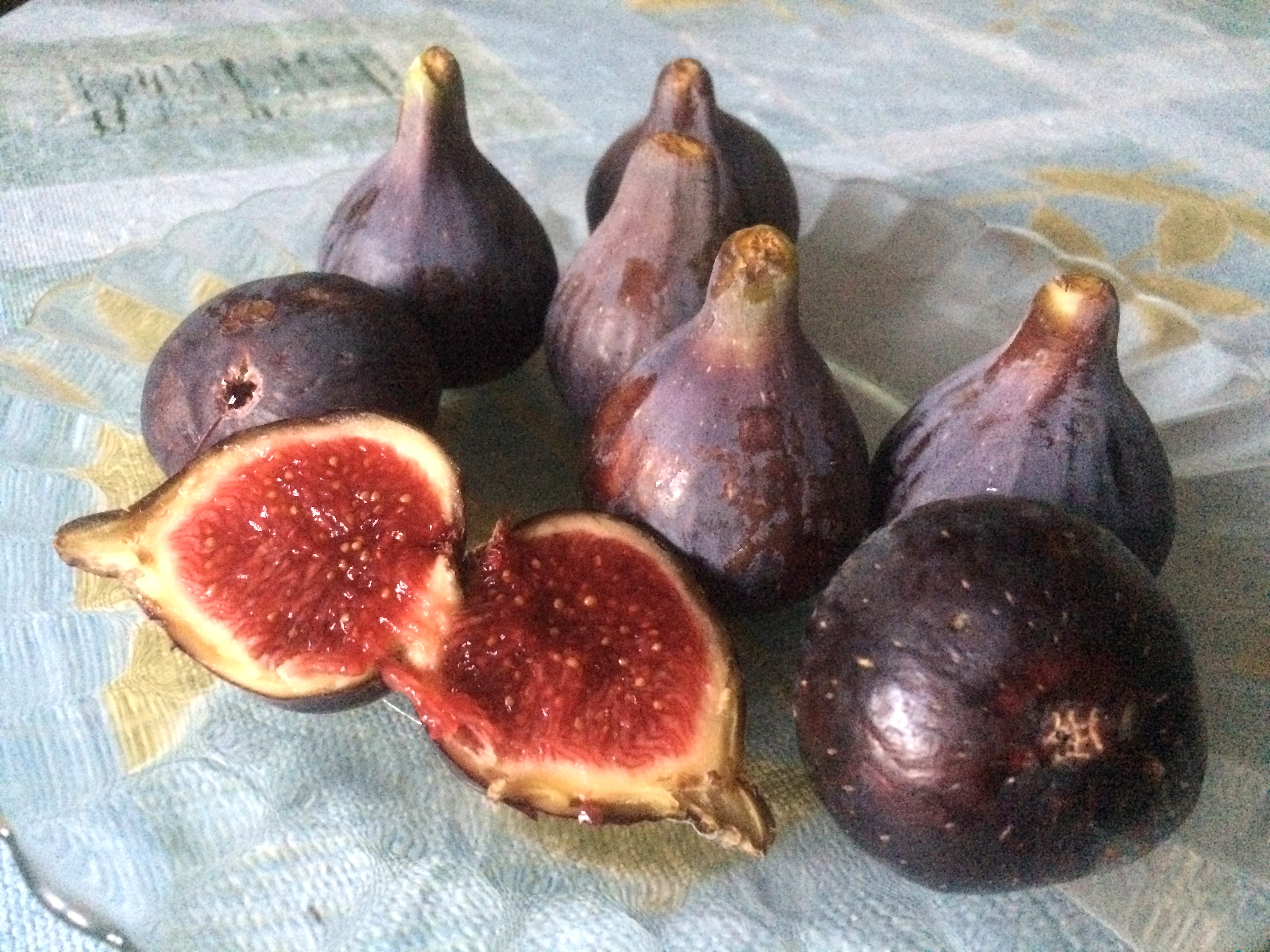 Ficus carica, 'Coll de Dama'